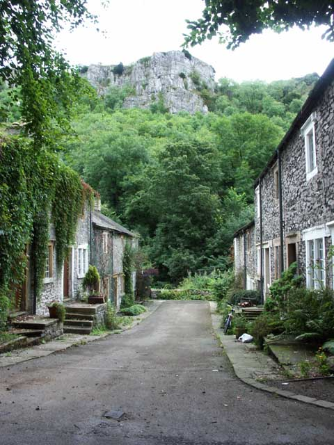 Ravensdale Cottages These former lead miners' cottages occupy an isolated position in Cressbrook Dale, overshadowed by Ravencliffe on the other side of the brook.